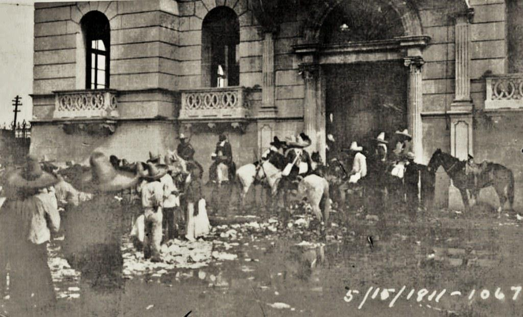 Torreón, May 15, 1911. Avenida Juarez, the entrance to the Casino de la Laguna, Torreón, Coahuila. At that date the revolutionary forces supporting Francisco I. Madero entered the city of Torreón, turning to plunder and various abuses, including those perpetrated a cruel killing at least 300 people of Chinese origin. Most of these deaths occurred around the Plaza de Armas. This dramatic photo attests to that fact. Photo of the Acquis HH Miller, Municipal Archives and Historical Research Institudo Eduardo Guerra, Torreón, Coahuila.